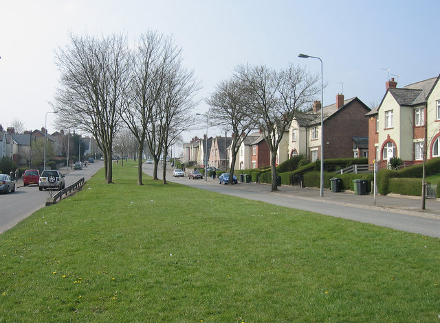 Grand Avenue, Ely. Looking along Grand Avenue in a westerly direction, at it’s junction with Wilson Road.